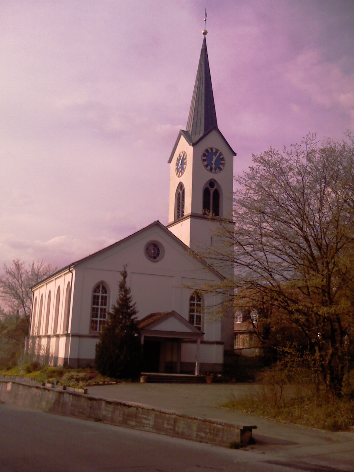 Church of Wangen, komunumo Wangen-Brüttisellen, canton of Zürich, SwitzerlandEsperanto: Preĝejo de Wangen, komunumo Wangen-Brüttisellen, Kantono Zuriko, Svislando